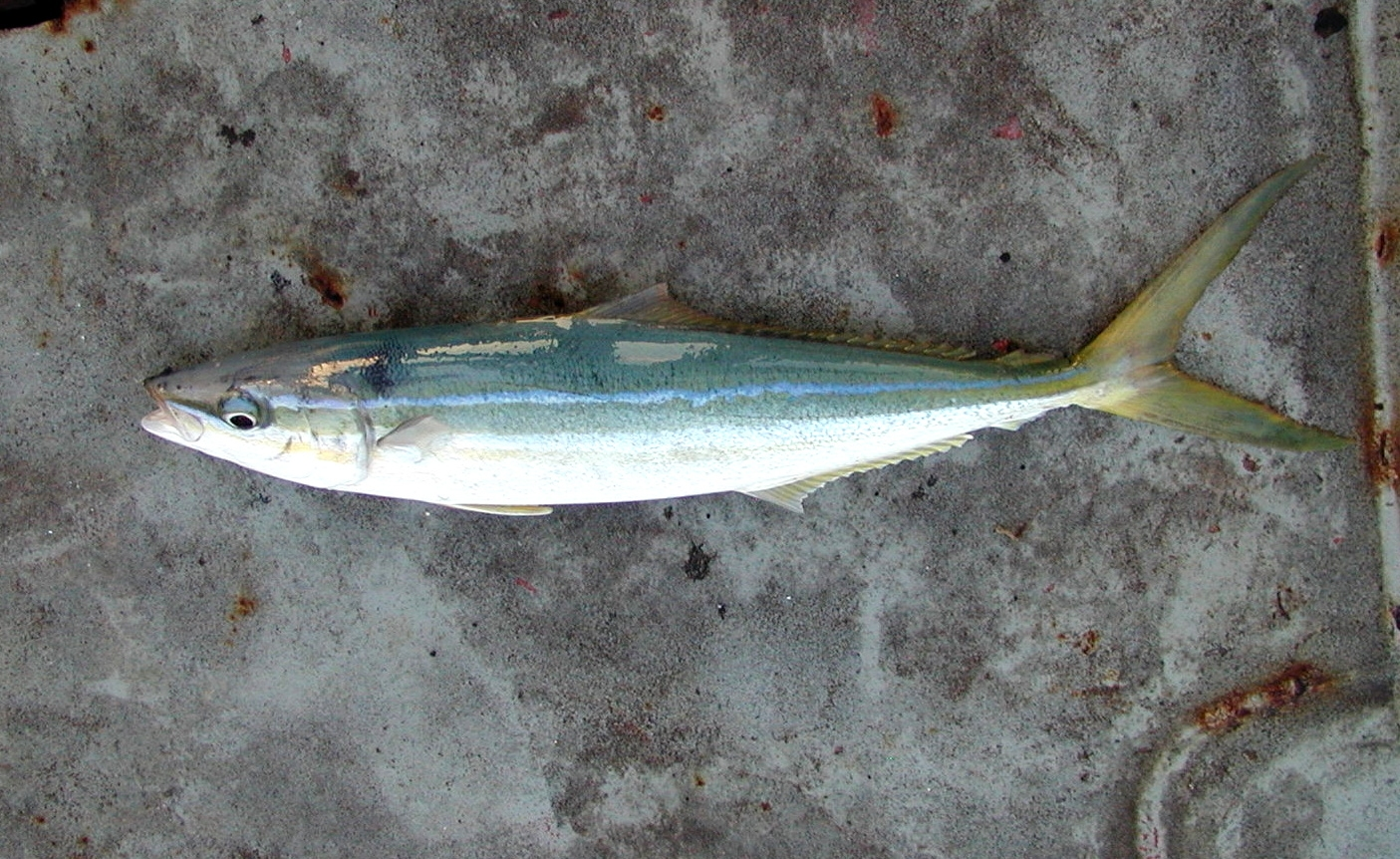 Rainbow runner Image ID: ship0486, NOAA's Fleet Then and Now - Sailing for Science Collection Location: Clipperton Island Photo Date: 2000 Fall Photographer: Shannon Rankin, NMFS, SWFSC